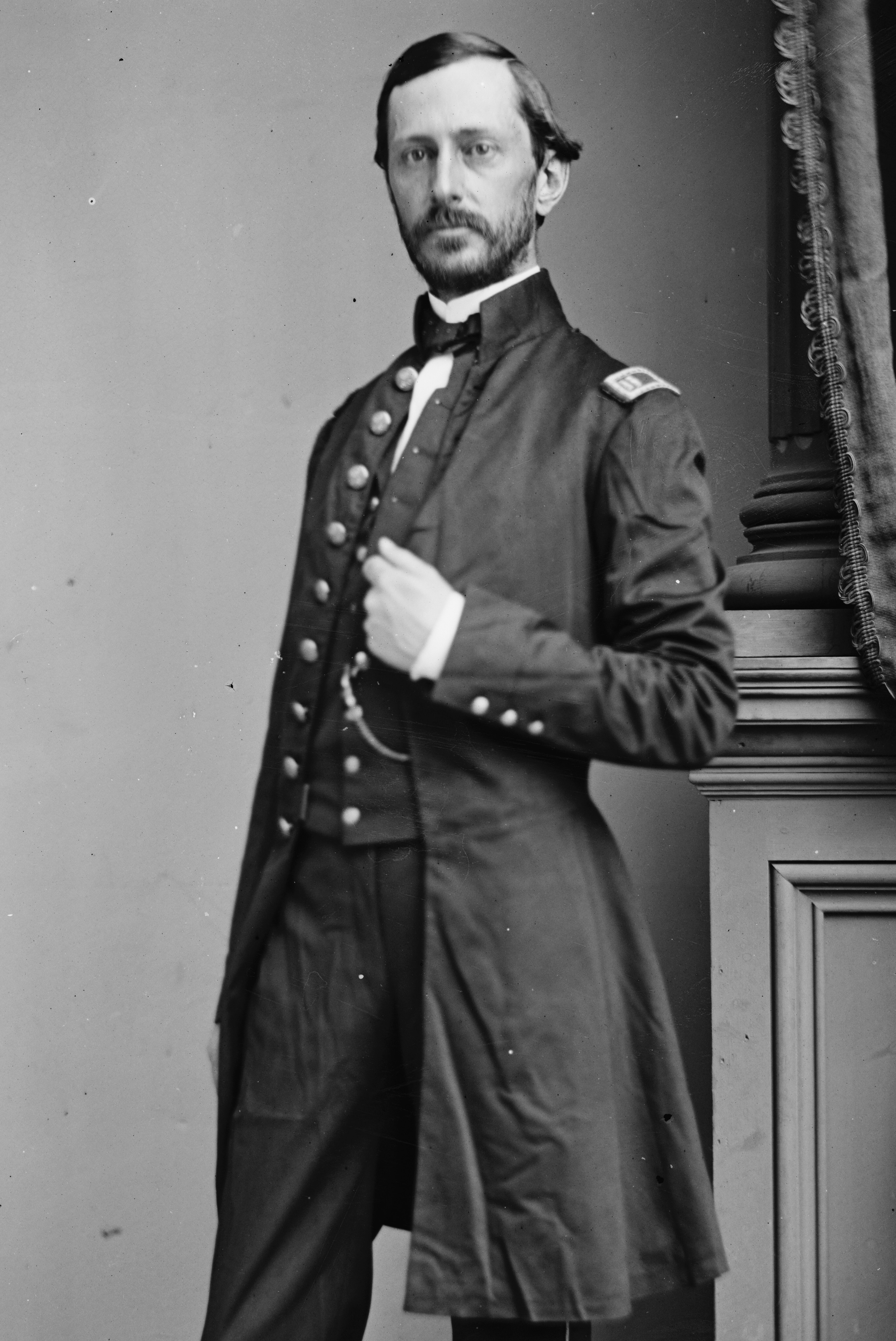 Capt. R.S. Williamson, U.S. Engineers.